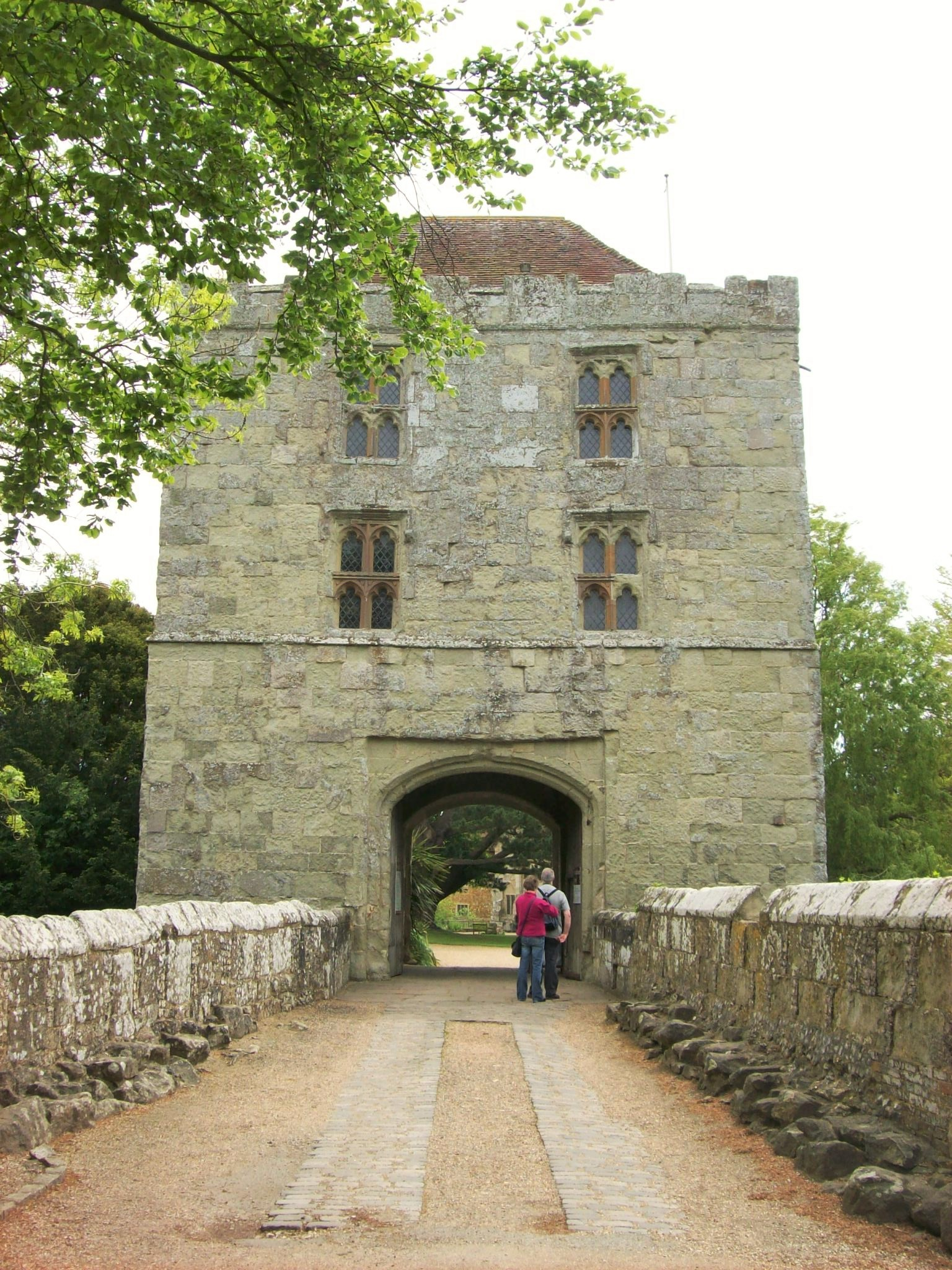 Michelham Priory